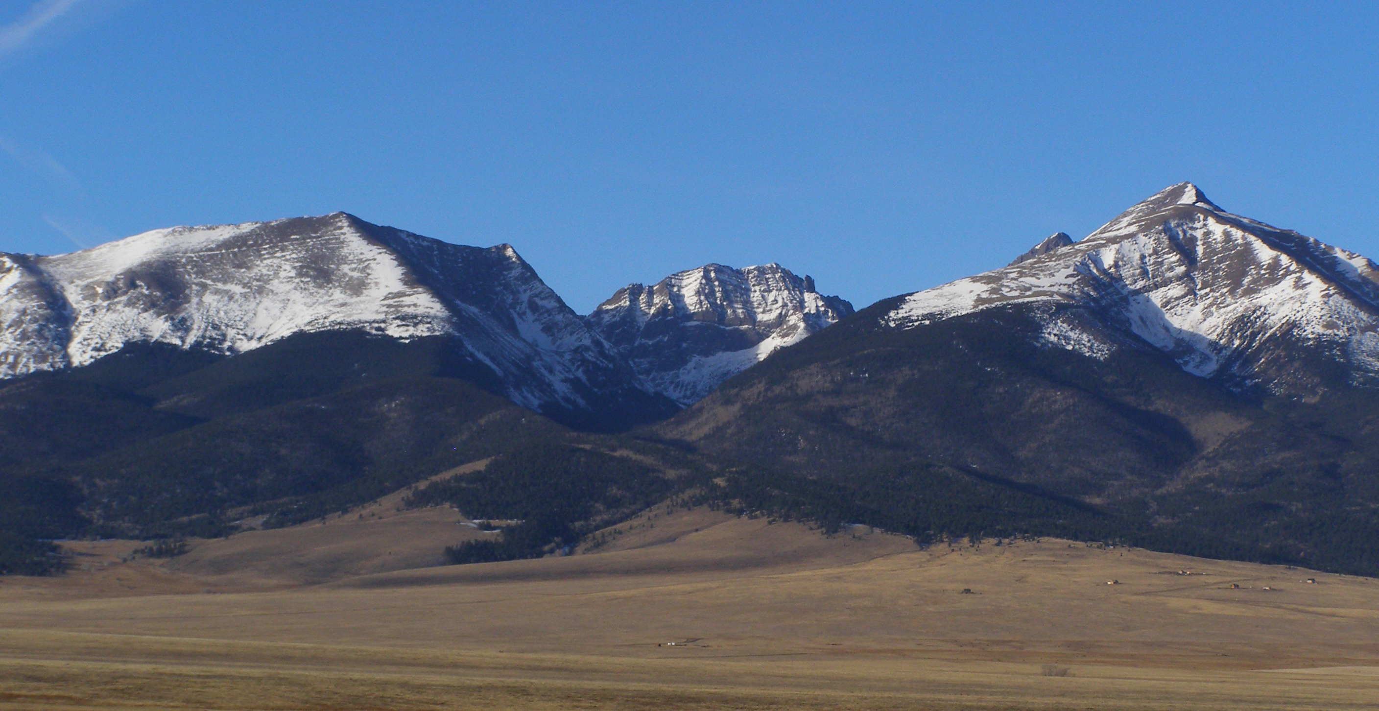 Eastern Sangre de Cristo Range. Taken from the Custer/Huerfano county line (circa milepost 42).